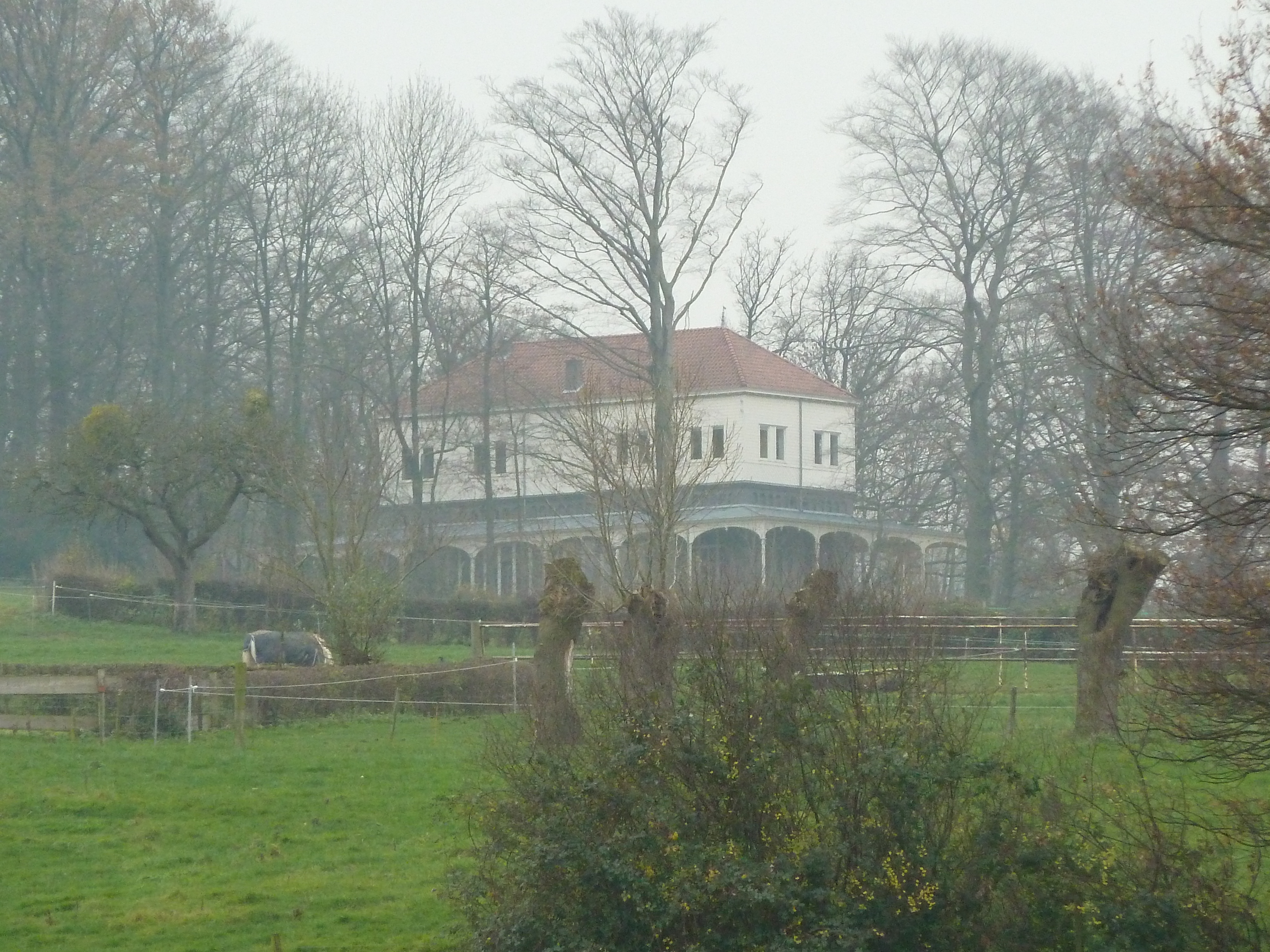 Bommerigerweg 23, Mechelen, Limburg, the Netherlands